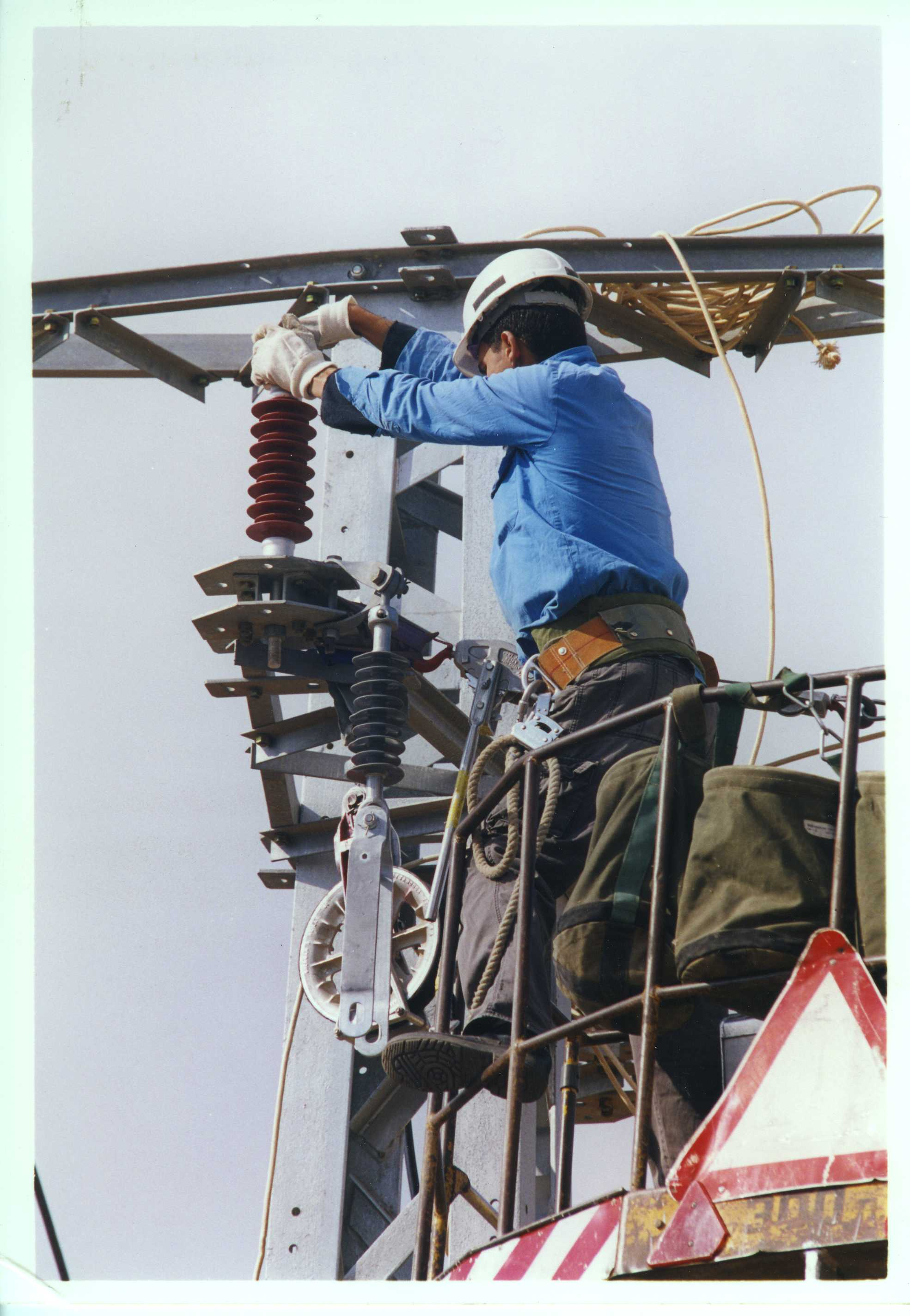 Electricity network maintenance, Industry in Israel